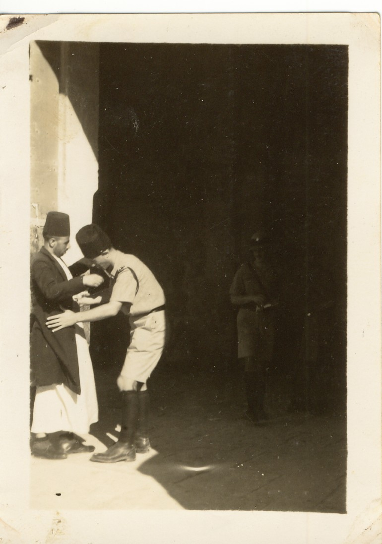 police search in jerusalem